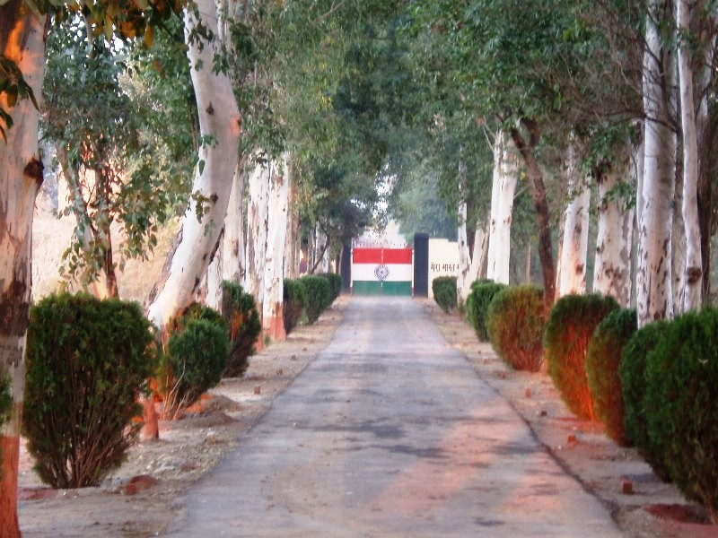 View of Indian Gate at the Indo-Pak de facto border, Village Kajlial,Jammu Road near Wains Uncha, Sialkot